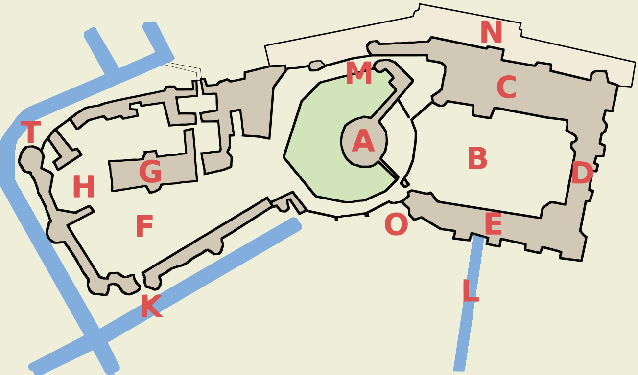 Complete remake of Windsorcastleplan.png. Vectorised and colours changed